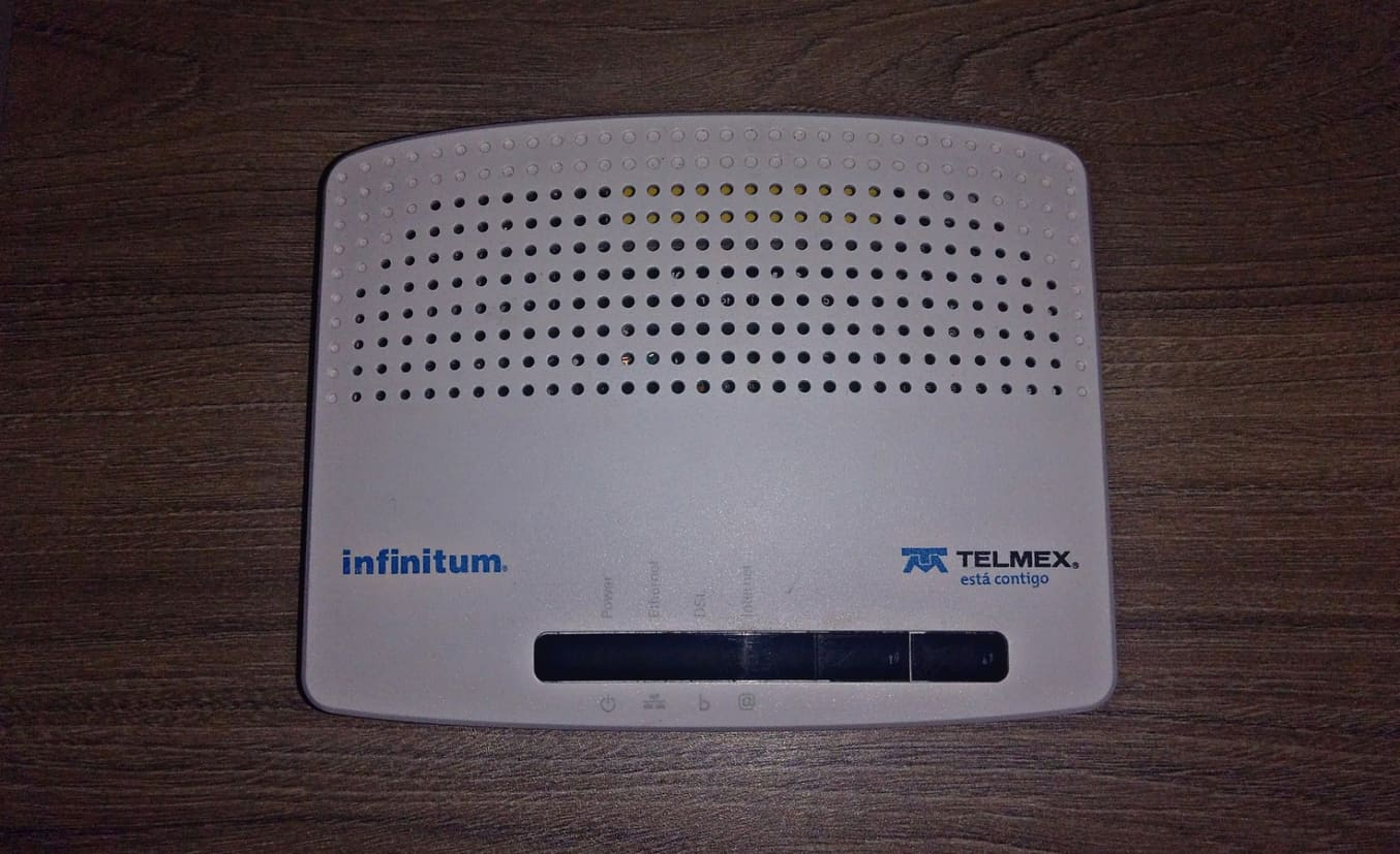 Example of a Technicolor brand of xDSL Model TG582n.